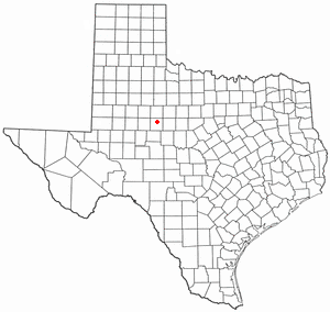 red dot is one county too far east.